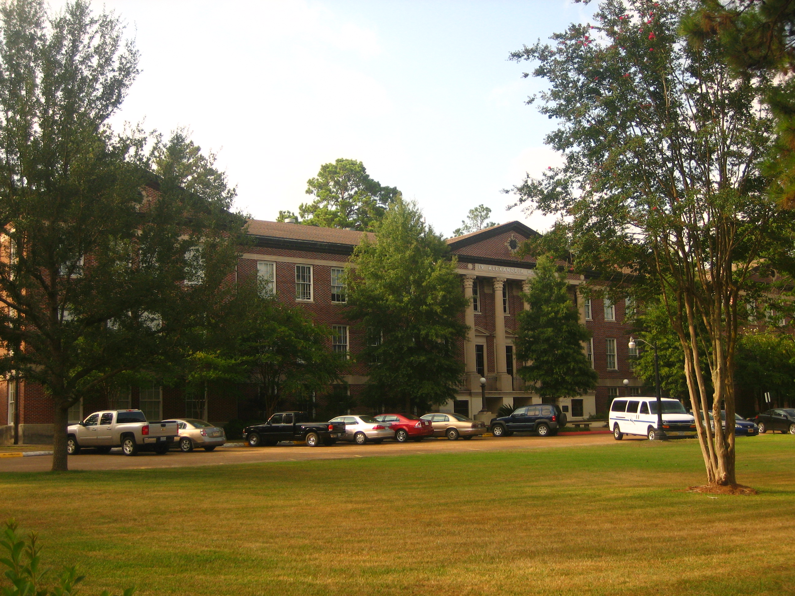 I took photo on Aug. 1, 2008.Billy Hathorn (talk) 03:46, 20 August 2008 (UTC)